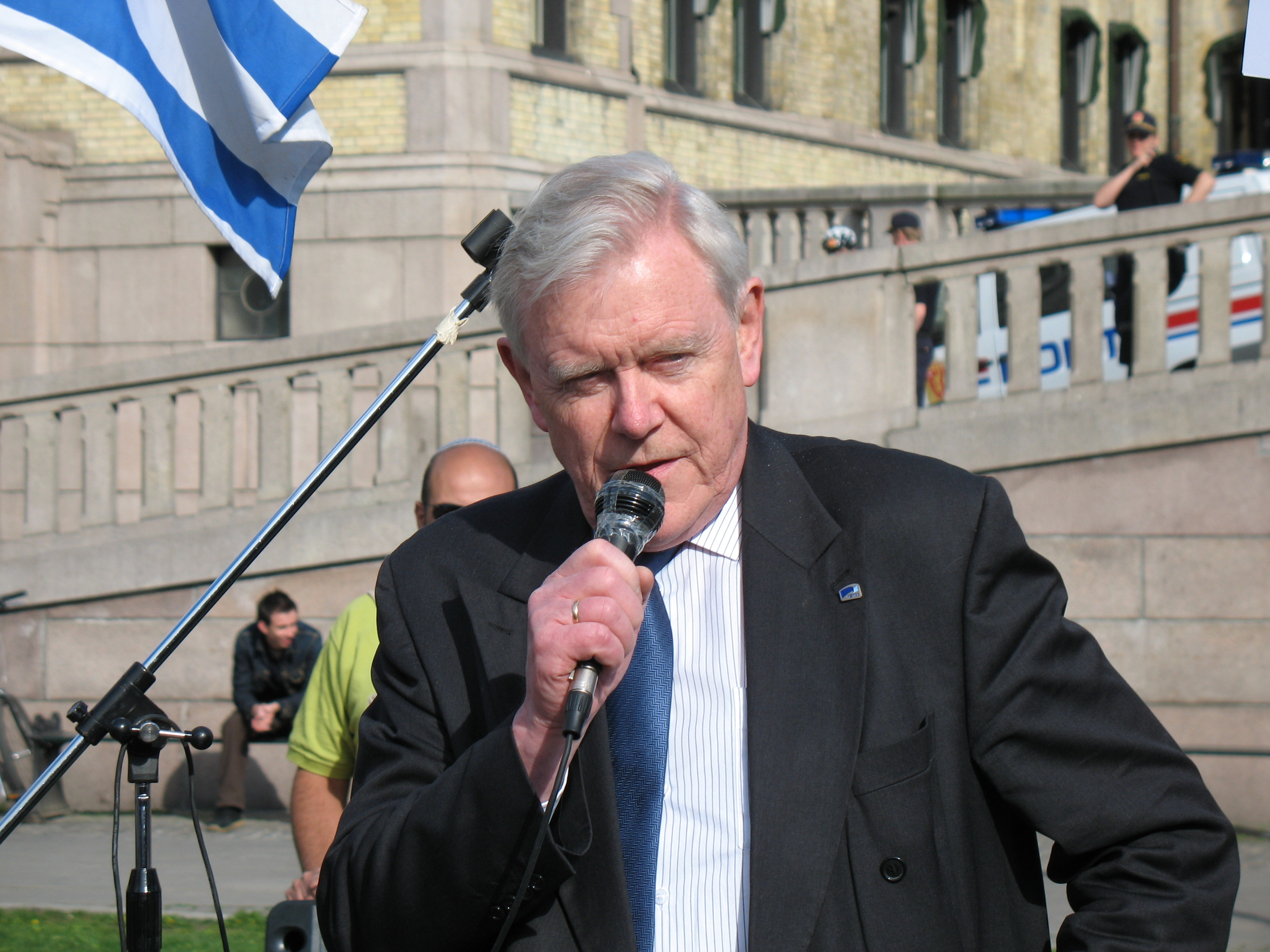 Norwegian politician Inge Lønning.